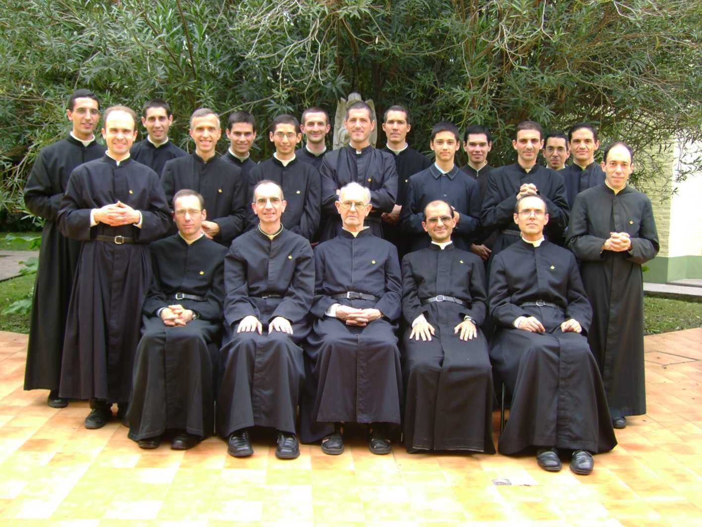 Community of Christ the King Institute, April 2007